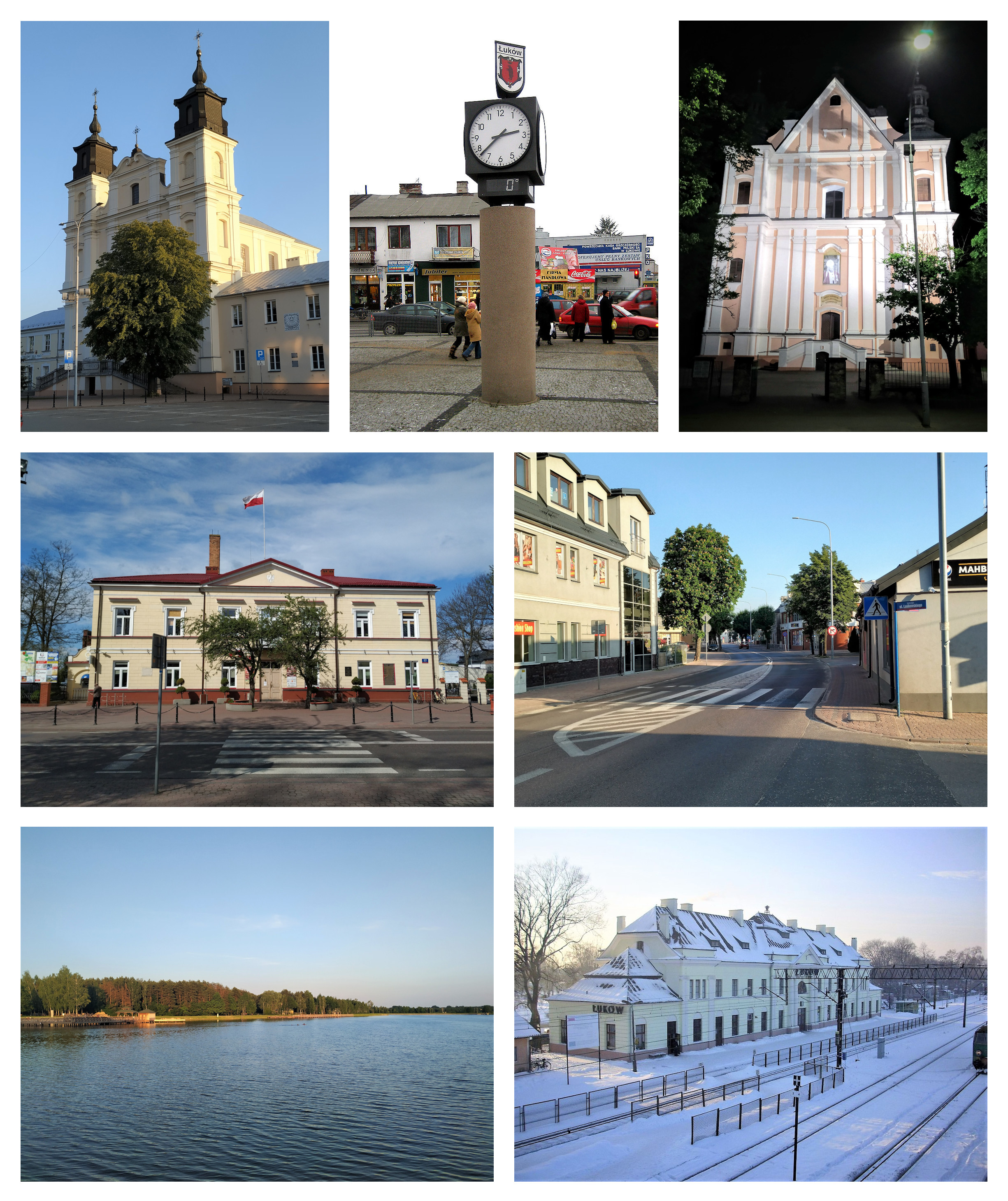 Montage of Łuków, Poland